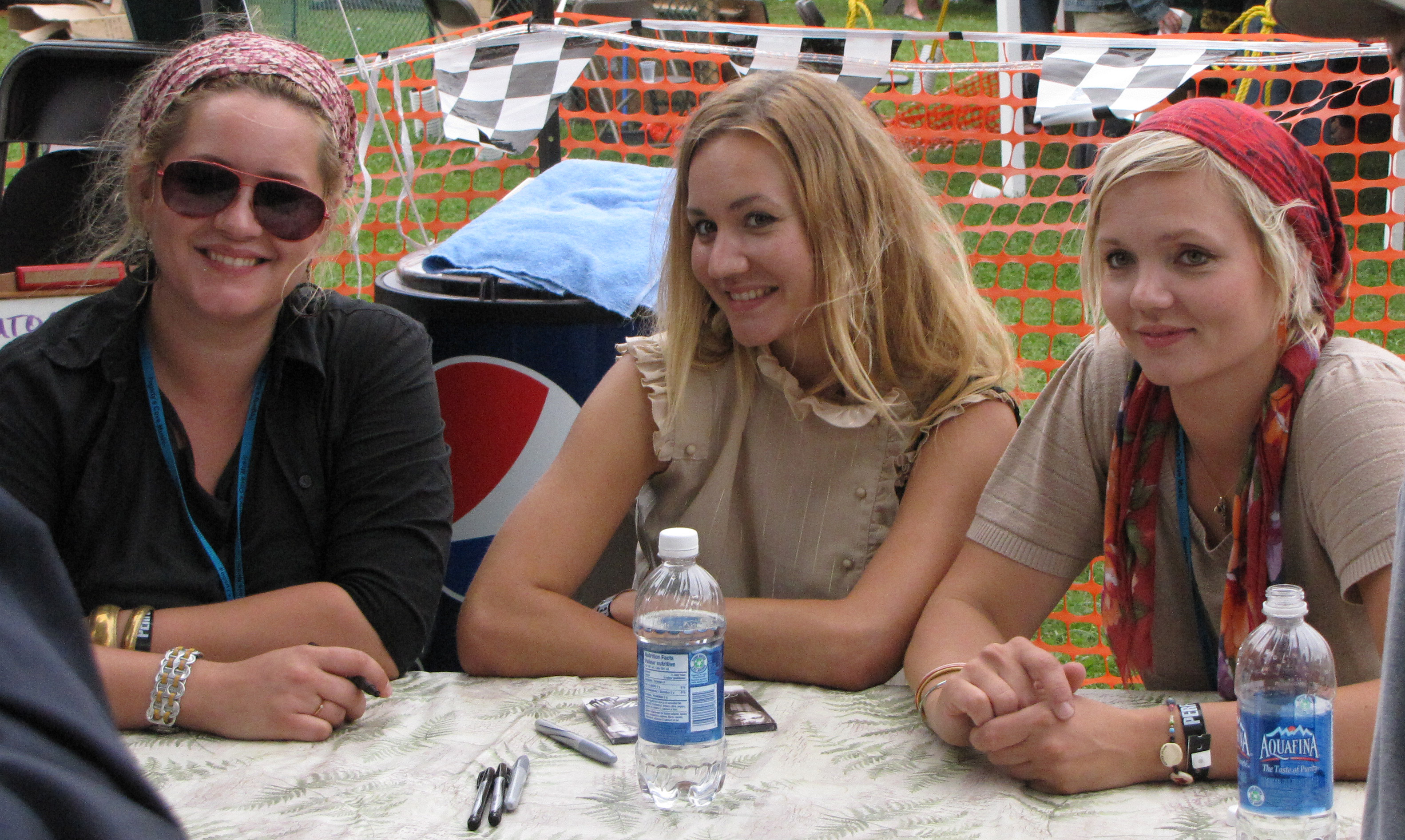 Swedish band Baskery at an autograph session at the 2010 Summerfolk Music & Crafts Festival in Owen Sound, ON. From left: Stella, Sunniva & Greta Bondesson.